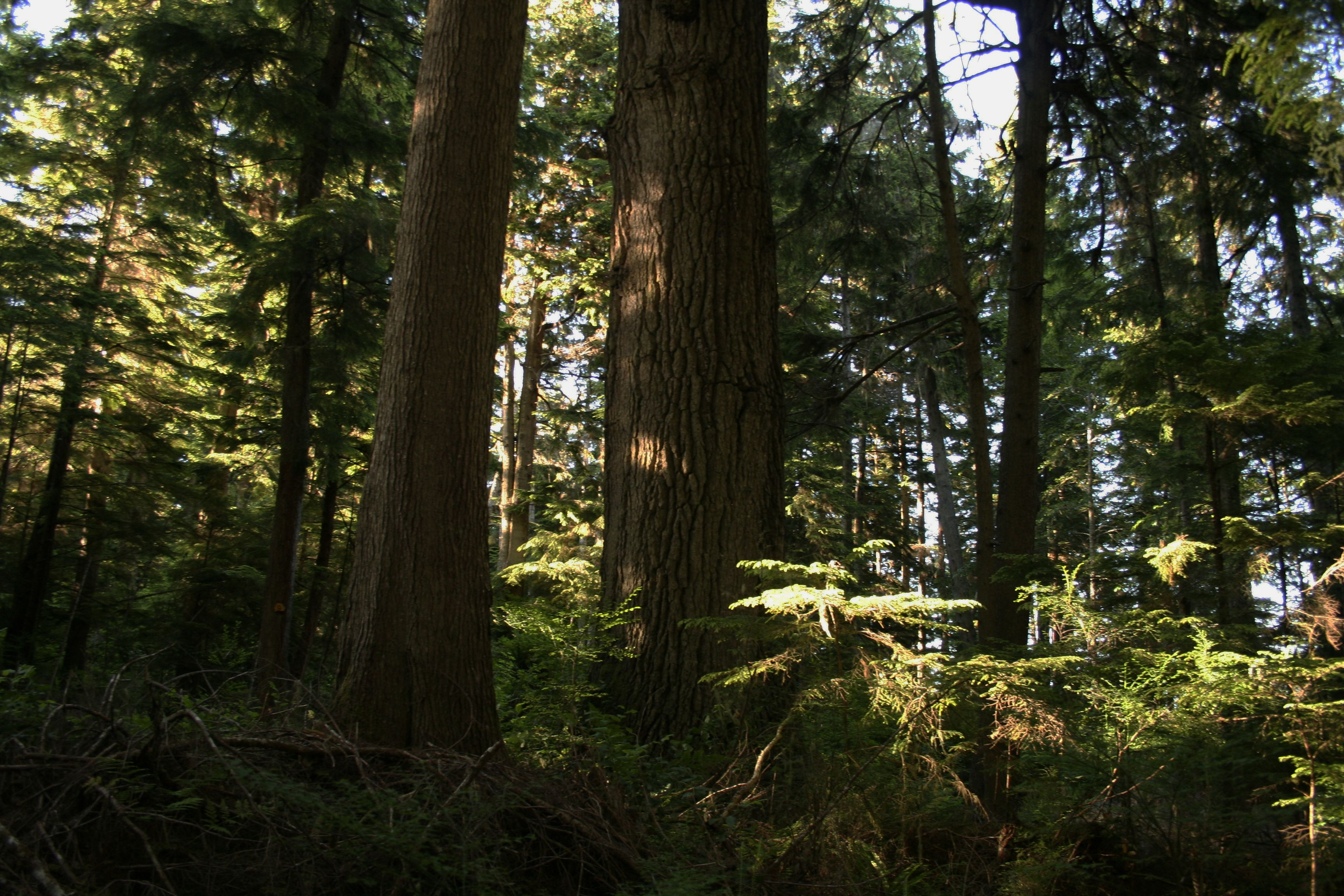 Most of Cormorant Island remains forested.